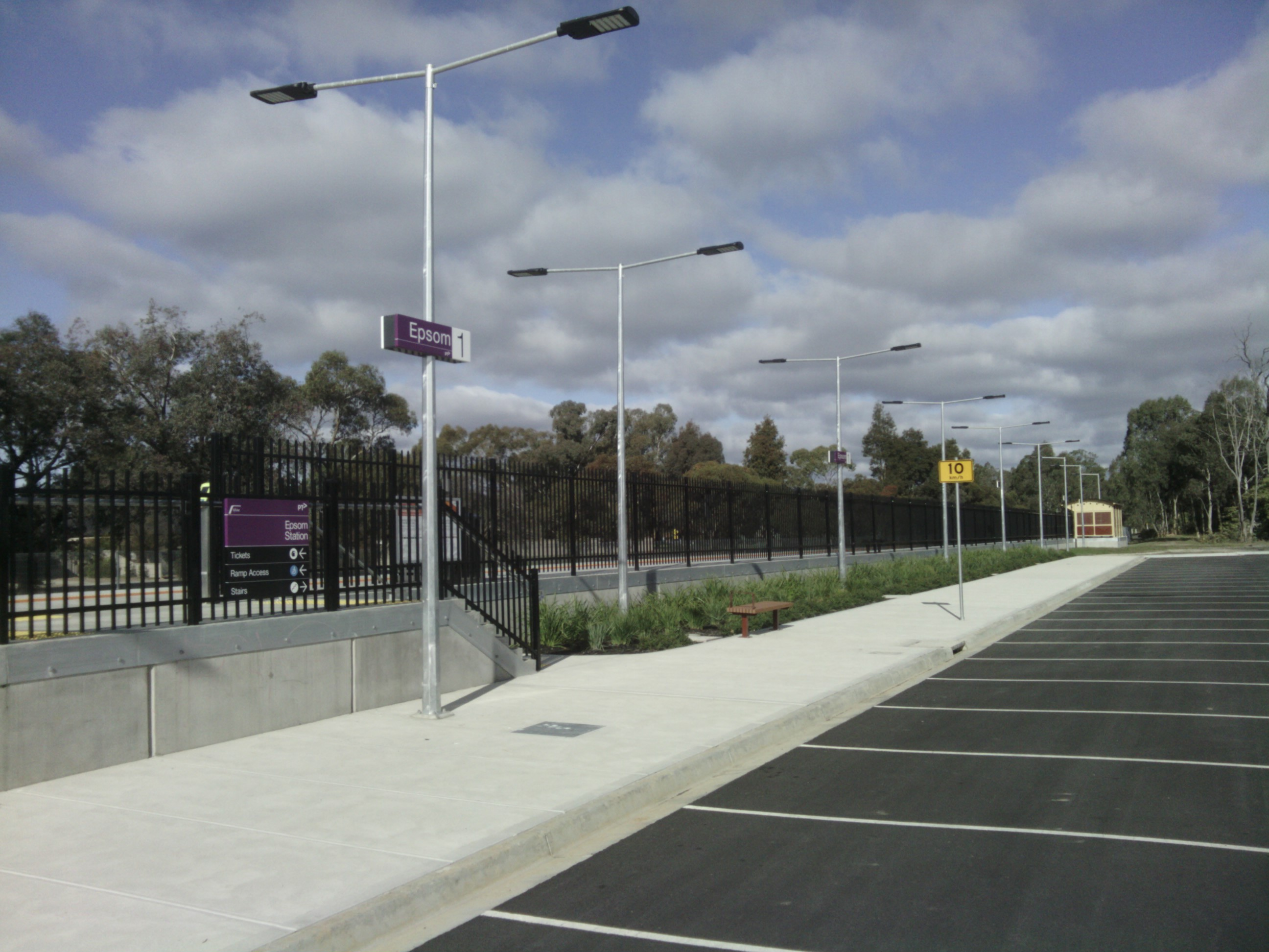 Epsom Railway Station.